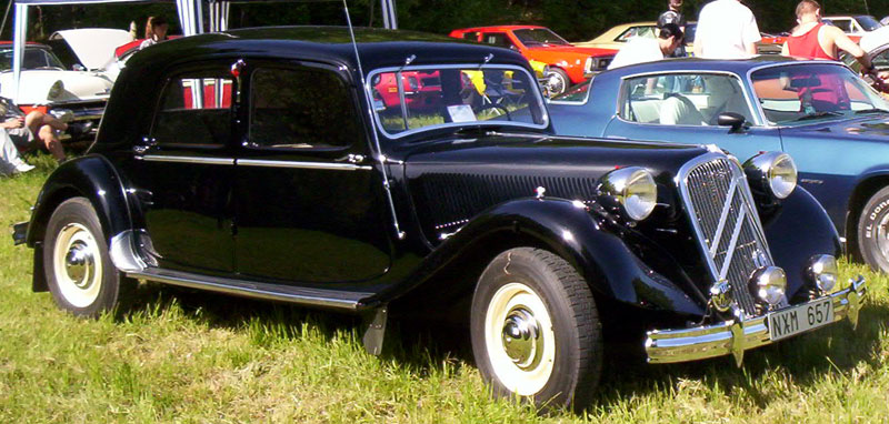 Citroen B15 Six 4-Door Berline 1951